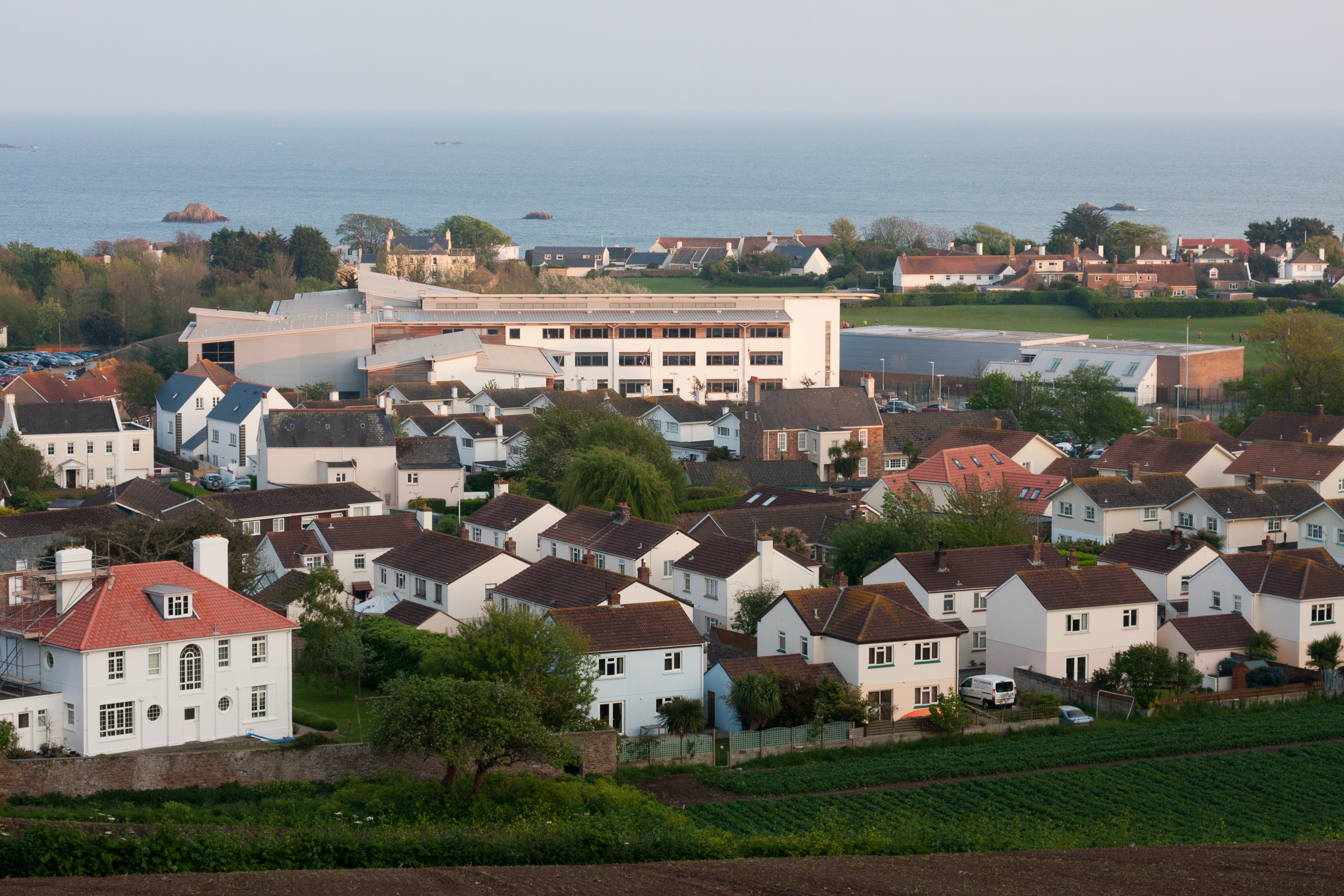 View of Le Rocquier School and St. Clement, Jersey.